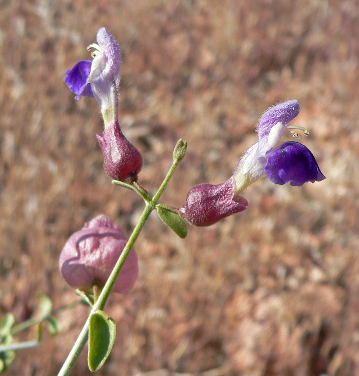 Photo of Salazaria mexicana (paperbag bush) in Calico Basin west of Las Vegas, Nevada